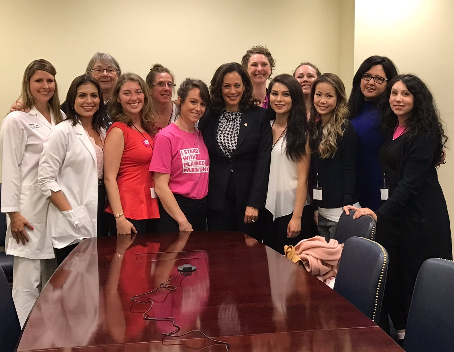 "Meeting with fierce advocates for Women’s Health from @PPACT is a really good way to kick-off #WomensHistoryMonth #IStandWithPP"